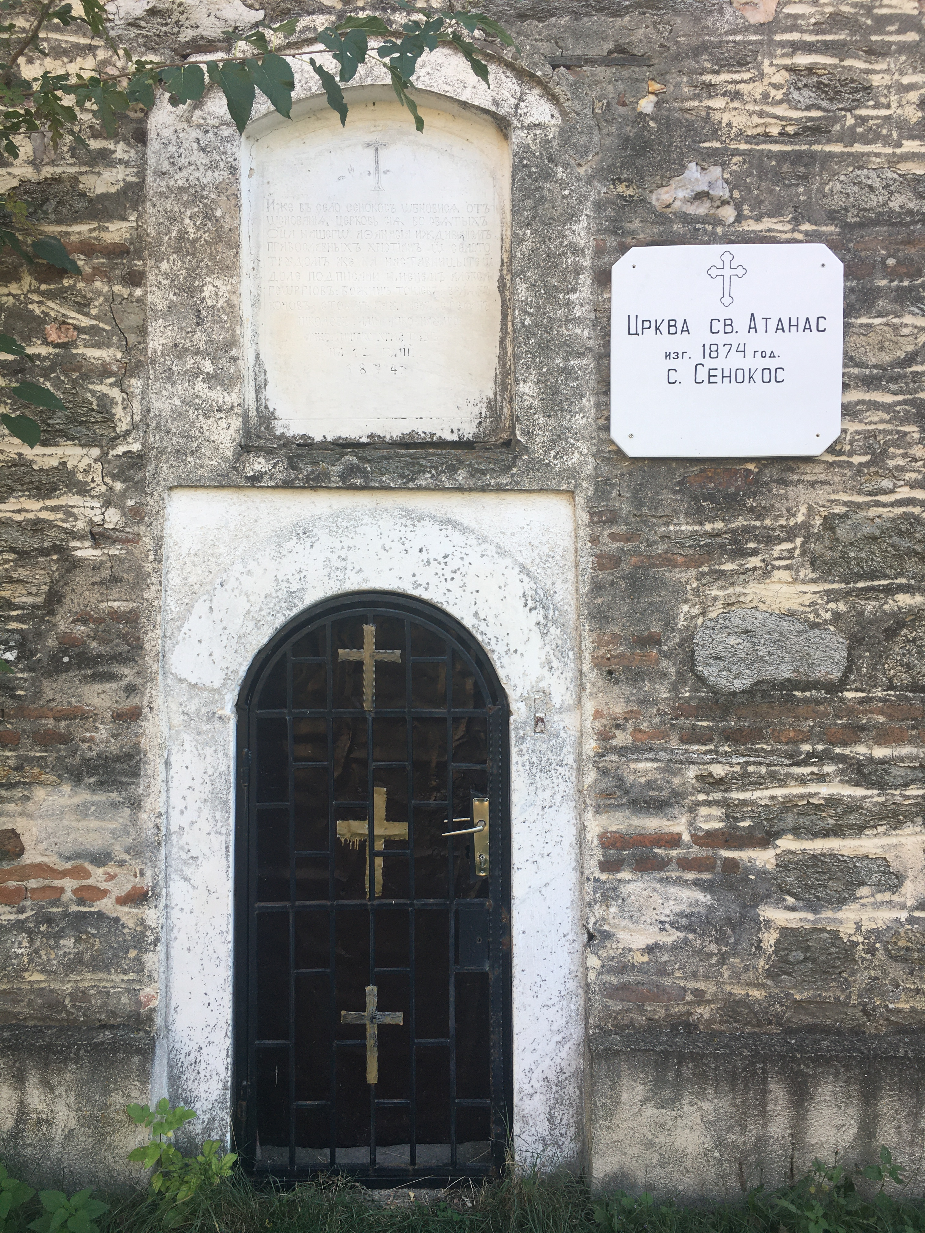 The entrance of St. Athanasius Church in the village of Senokos